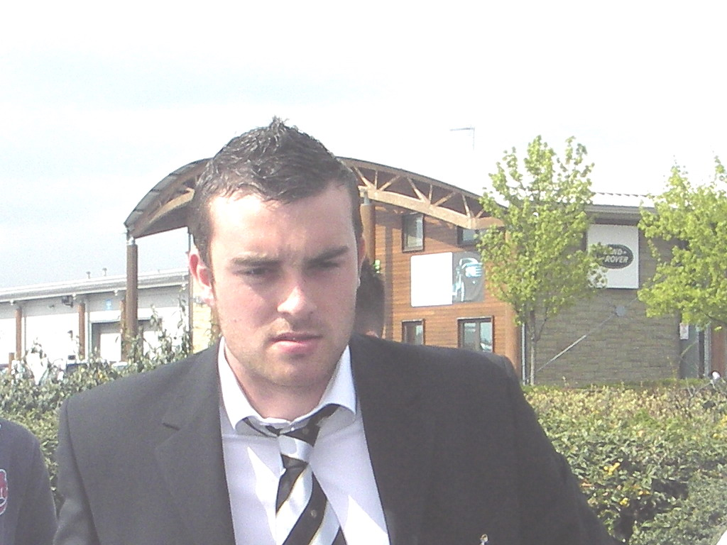 Lee Camp, Derby County player.